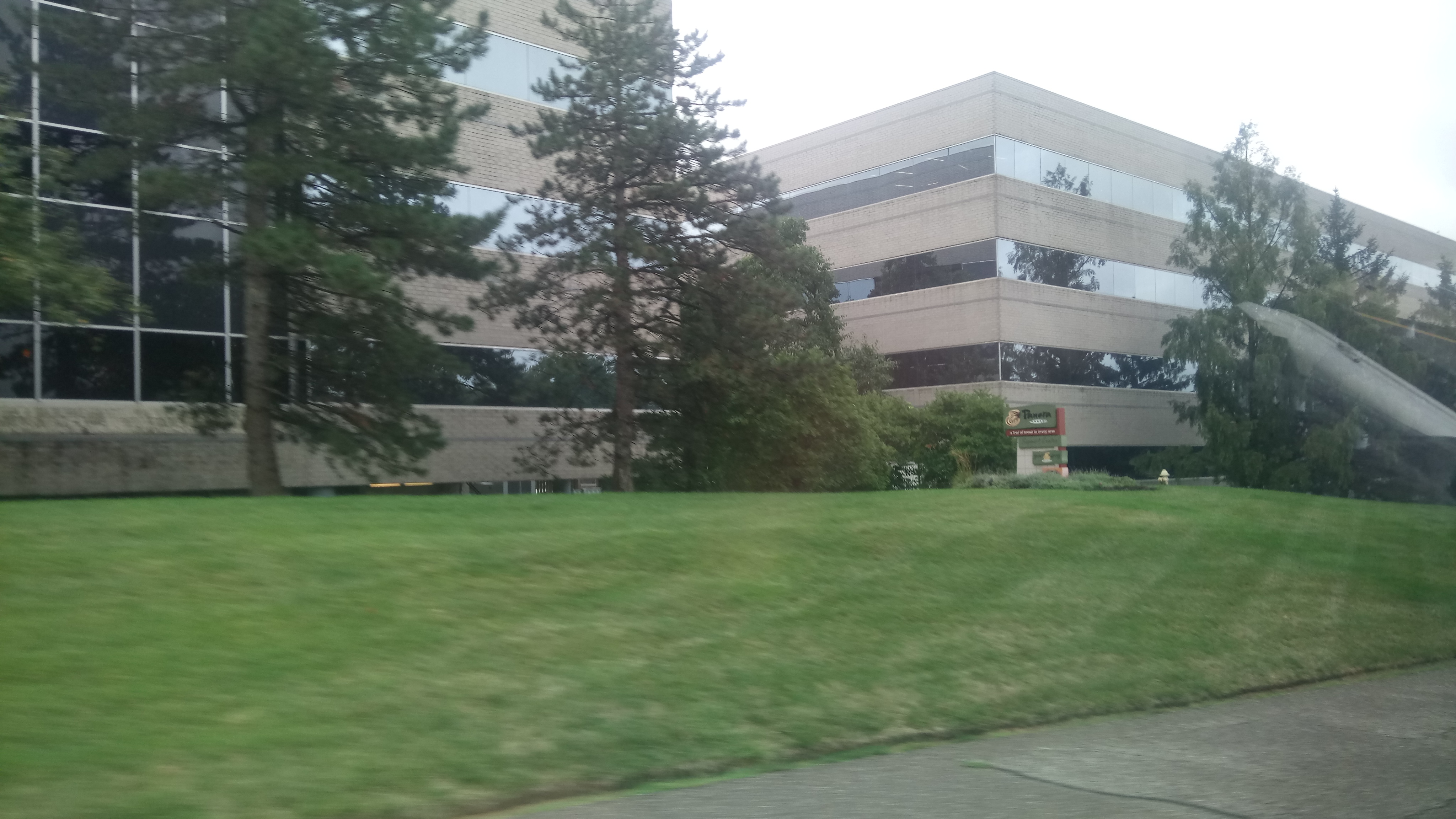 Panera Bread headquarters - 3630 S. Geyer Road, Suite 100 St. Louis, MO 63127 (in the City of Sunset Hills)